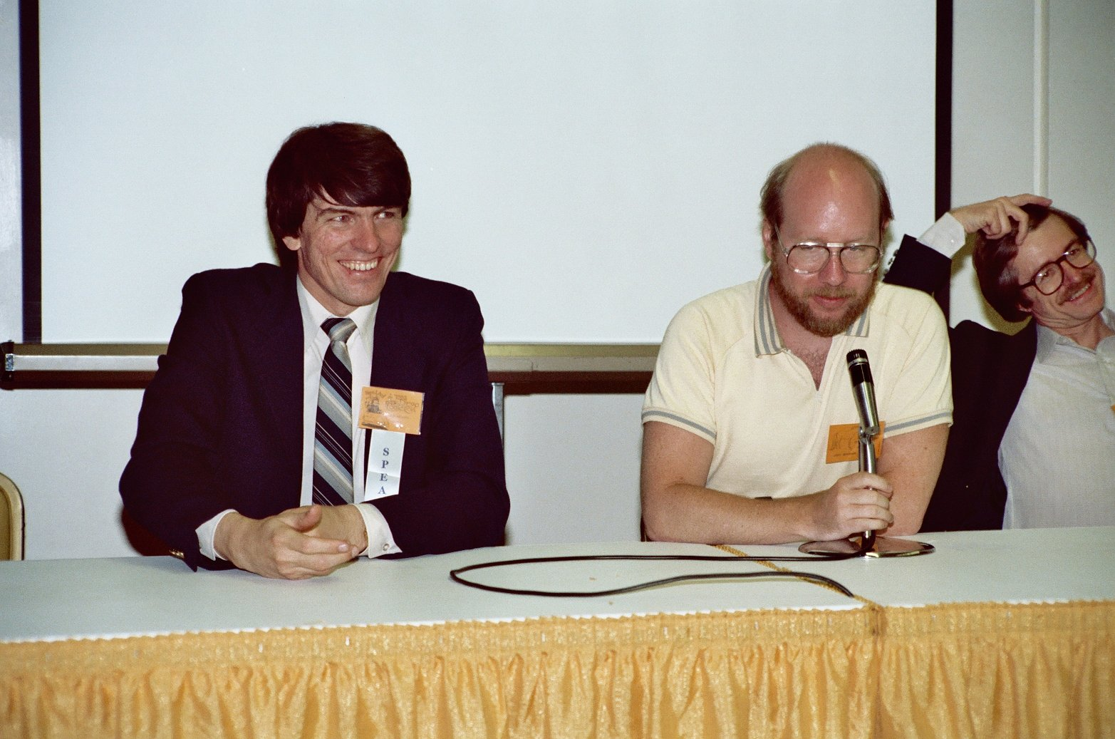 1982 San Diego Comic-Con International. Scanned from the original 35MM film negative. NOTE: Permission granted to copy, publish, broadcast or post any of my photos, but please credit "photo by Alan Light" if you can. Thanks.